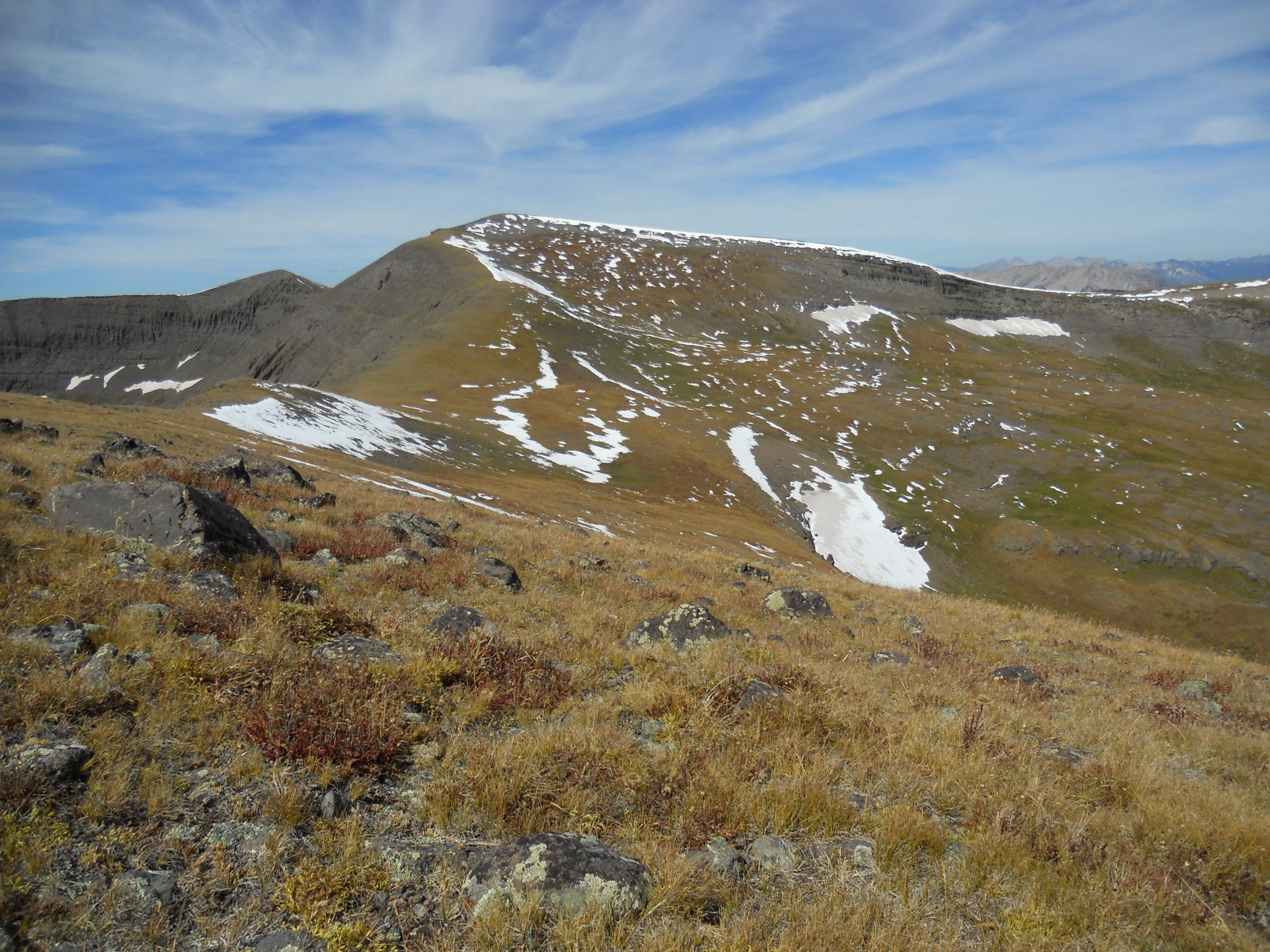 West Elk Peak viewed from the south-southeast. At an elevation of 13,042 ft (3,975 m), this peak is the highest summit in the West Elk Mountains. It is located in the West Elk Wilderness within the Gunnison National Forest.